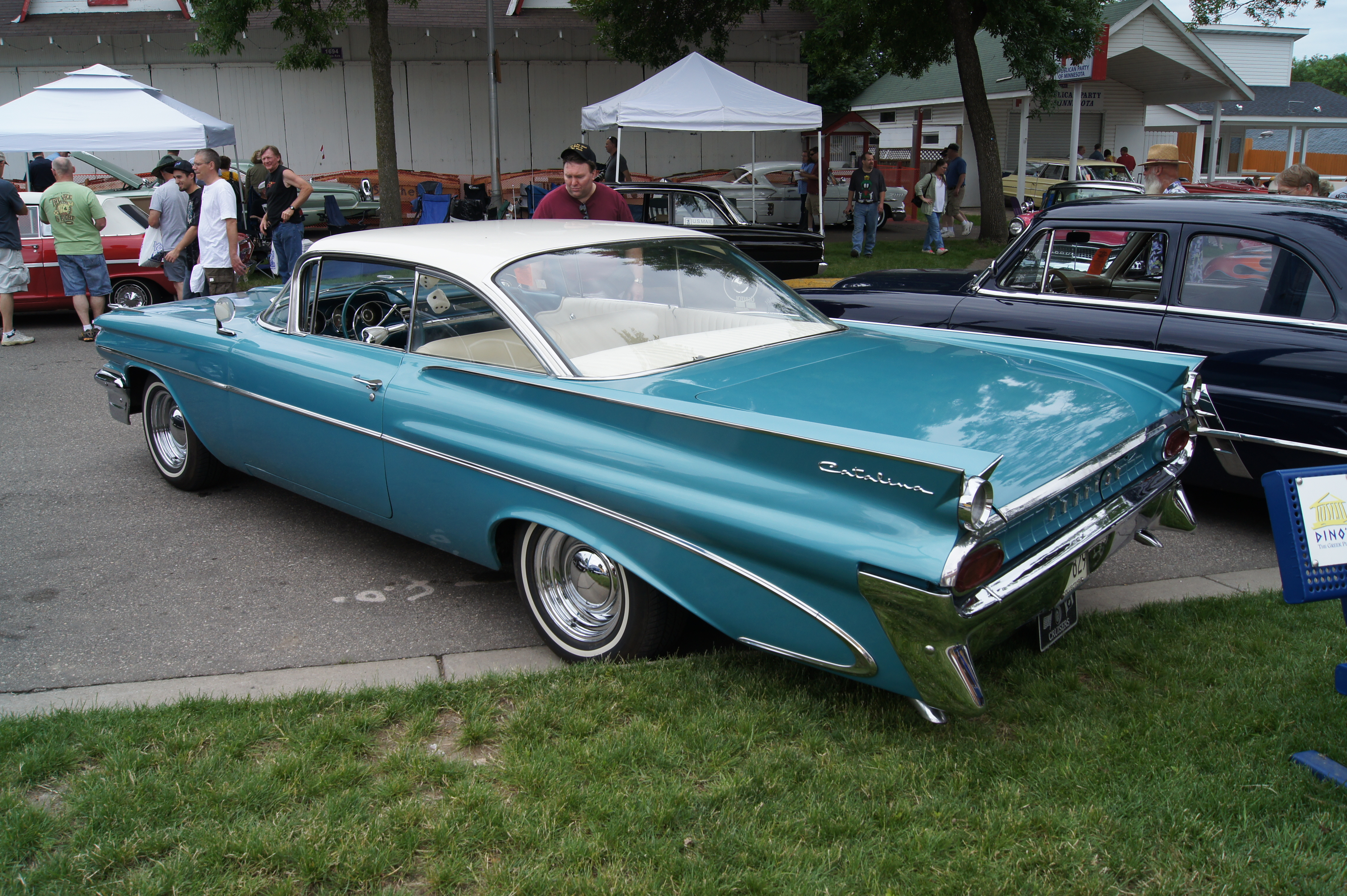 Minnesota Street Rod Association 39th Annual "Back to the Fifties" June 2012 Minnesota State Fairgrounds St. Paul MN